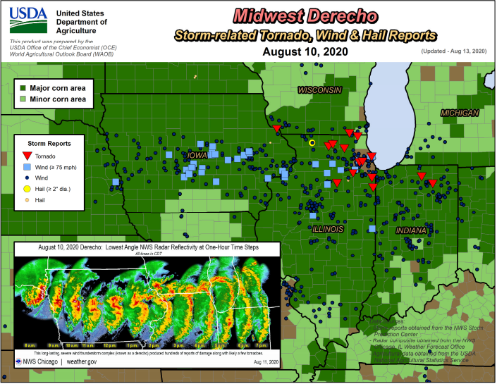 A map of the Midwest United States focusing on Iowa, Illinois, and Indiana. Storm reports from the August 2020 Midwest derecho are layered over the USDA analysis of corn production areas.